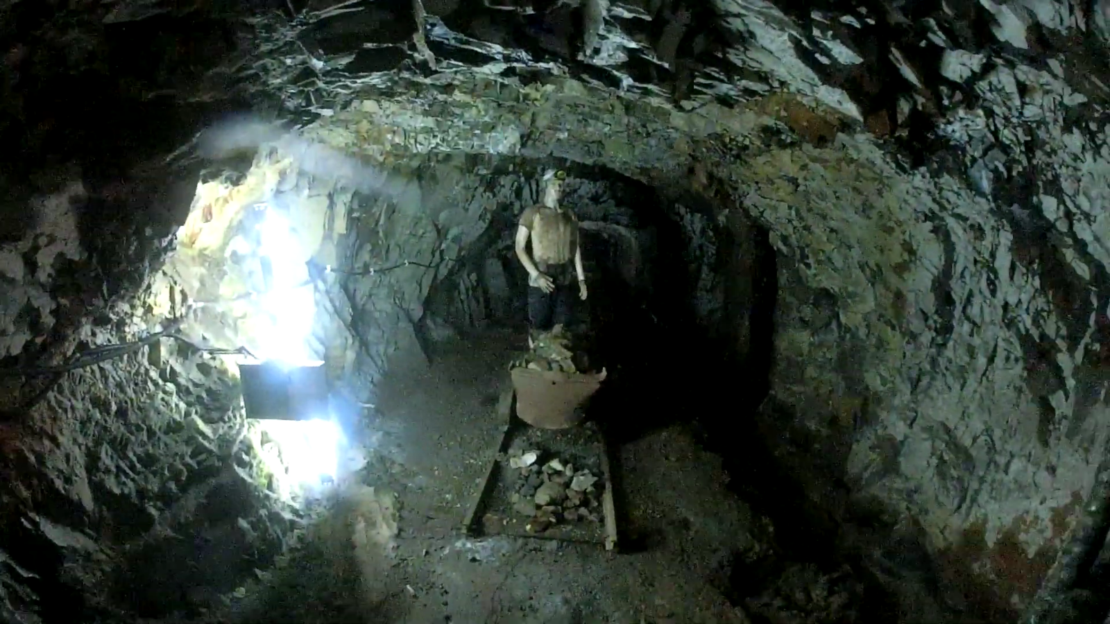 A mannequin depicting transporting tin inside mining tunnel in former Sungai Lembing tin mining tunnel